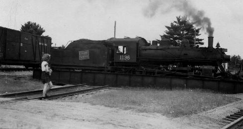 CNoR engine 1136 was built in 1913 and scrapped in July 1954. It kept its number after being taken over by CN in 1923. 1136 is seen on the IB&O turntable at Irondale, still sporting the original CNoR livery.